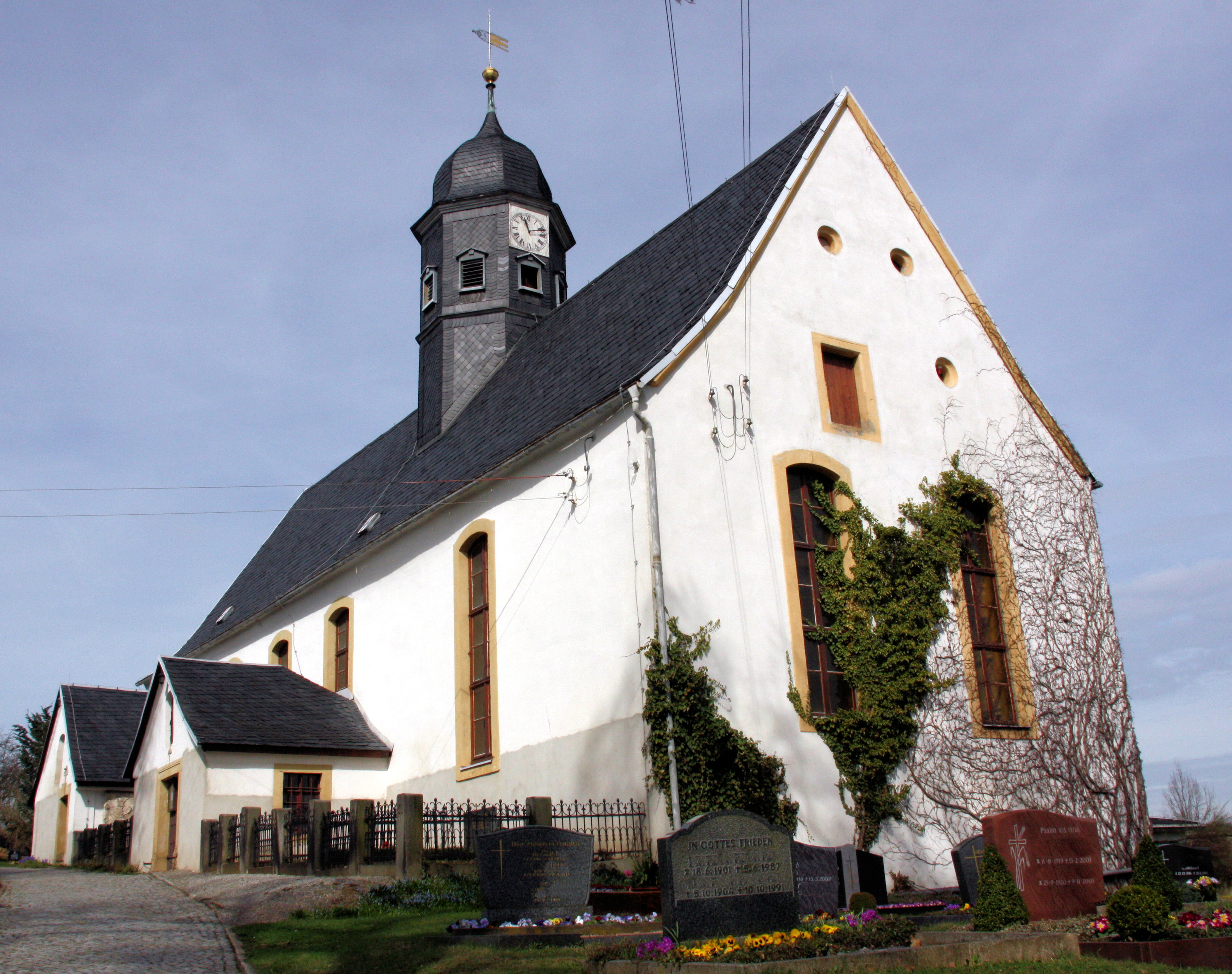 Church of Seifersdorf, Saxony, Germany, 2009